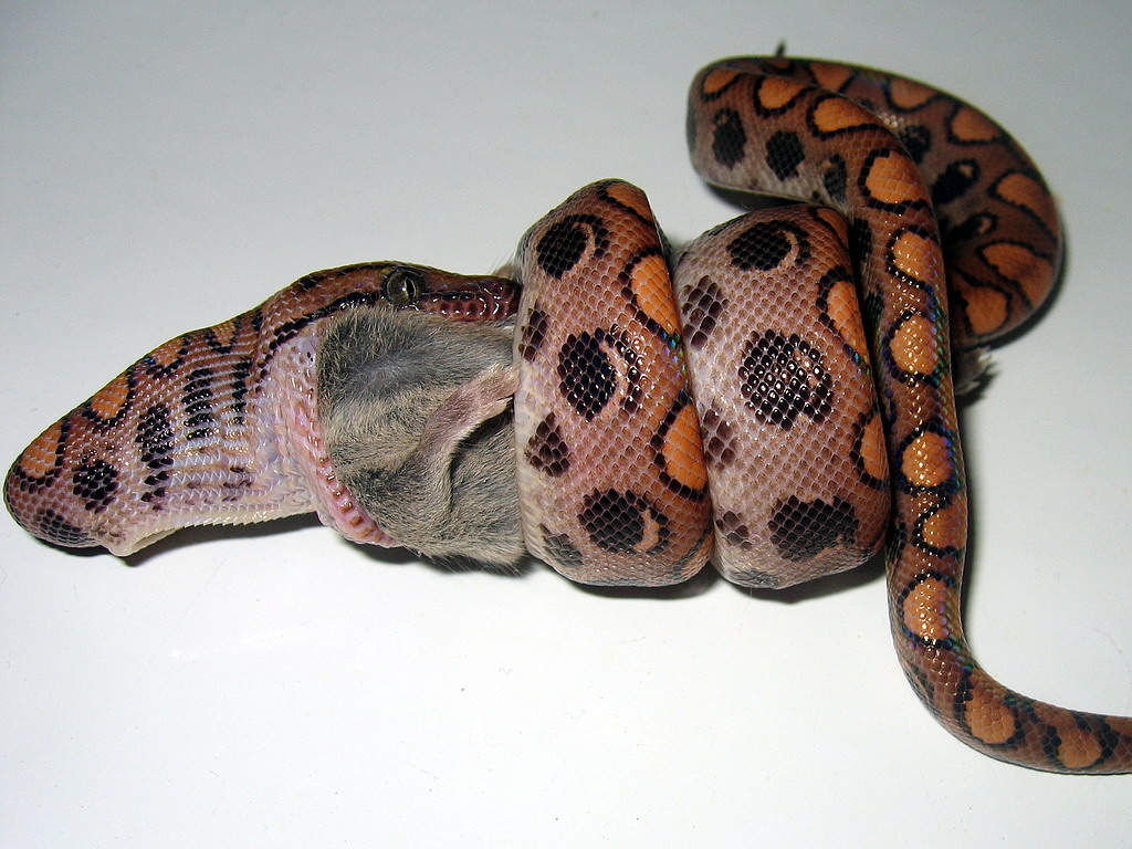 Epicrates Cenchria Cenchria Photo: karoH